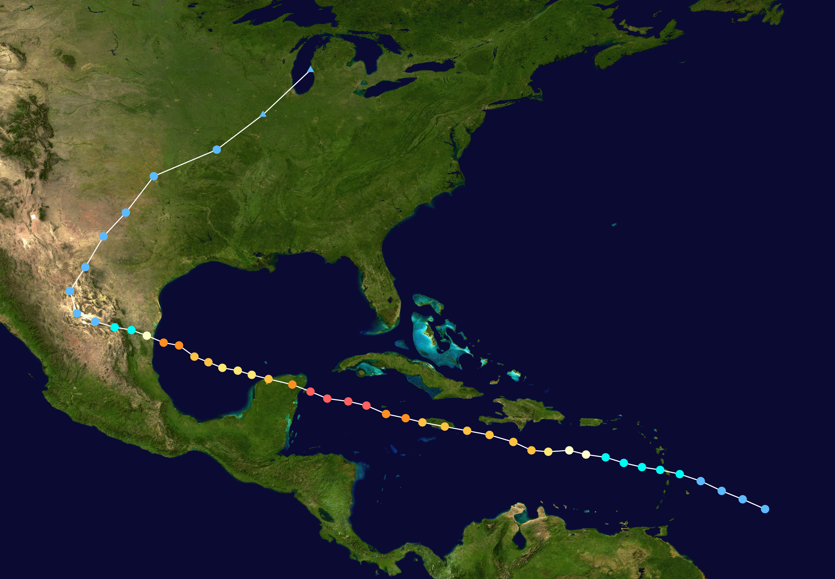 Hurricane Gilbert (1988) track. Uses the color scheme from the Saffir-Simpson Hurricane Scale.